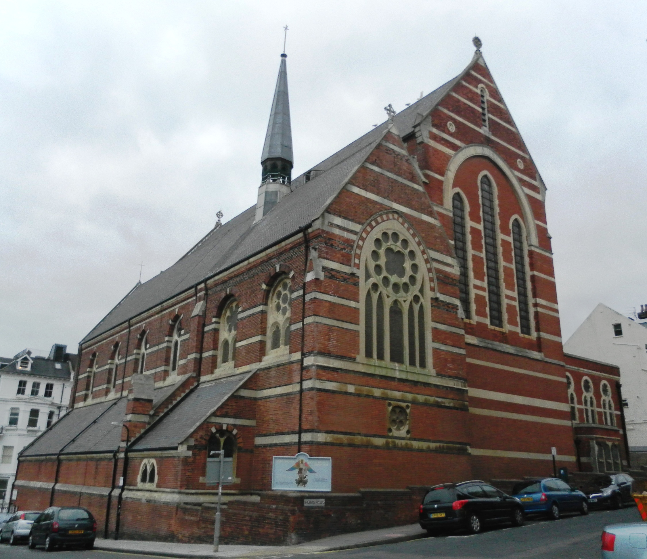 St Michael and All Angel's Church, Victoria Road, Montpelier, City of Brighton and Hove, England. Listed at Grade I by English Heritage (IoE Code 481428)